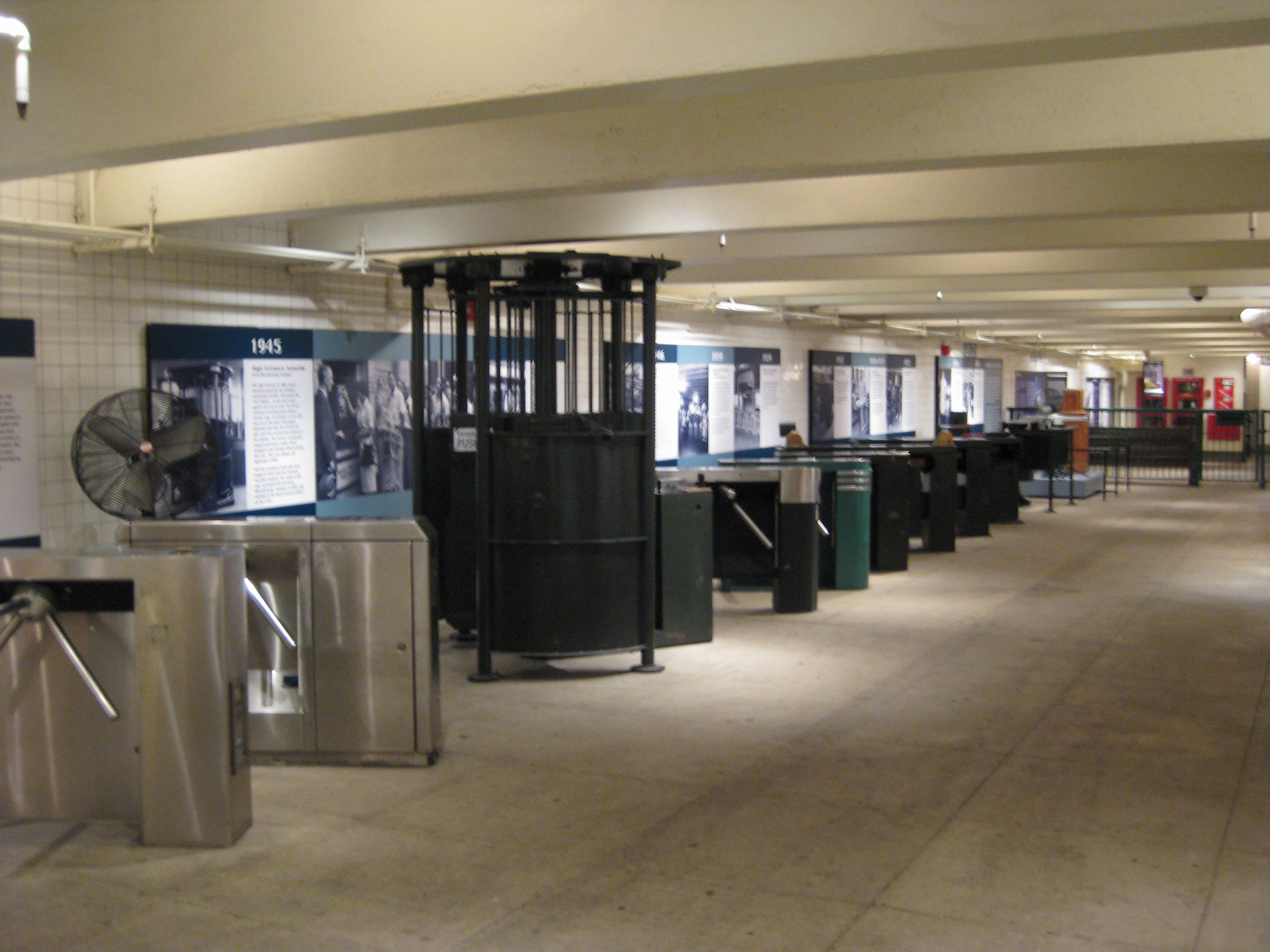 A collection of turnstiles used in the New York Subway on display at the New York Transit Museum in October 2009